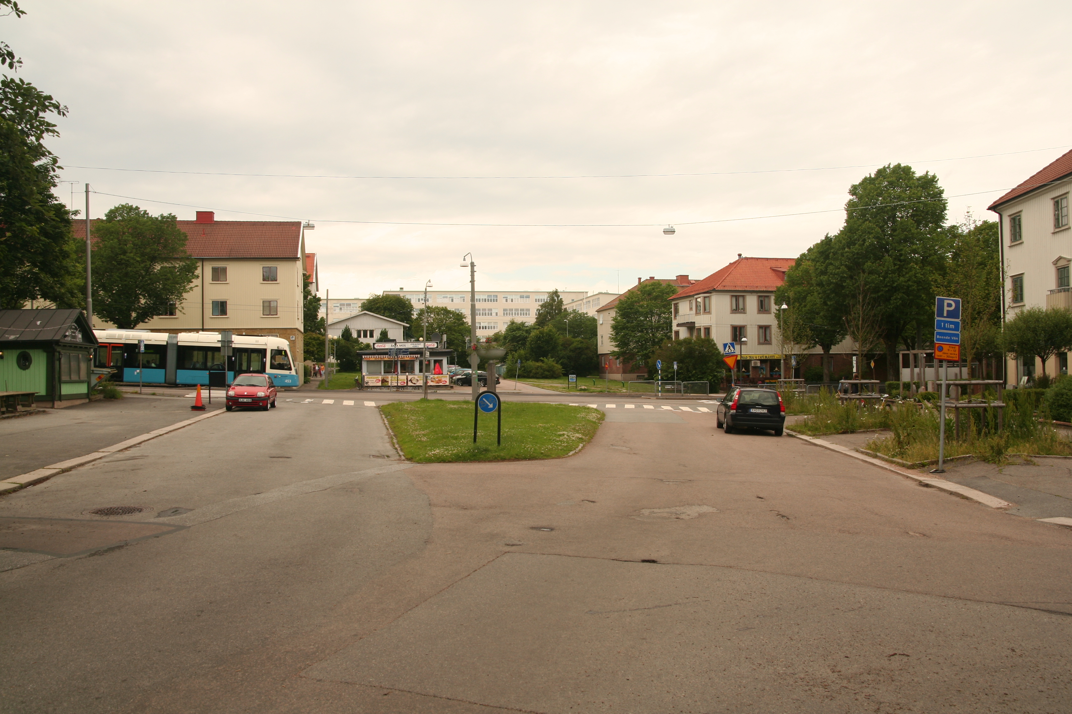 Sannaplan in Göteborg, Sweden, seen from south-east.